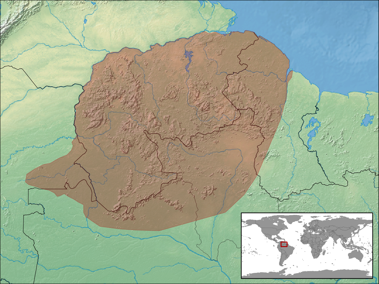 geographic distribution of Dendrobates leucomelas (Native: Brazil; Colombia; Guyana; Venezuela)